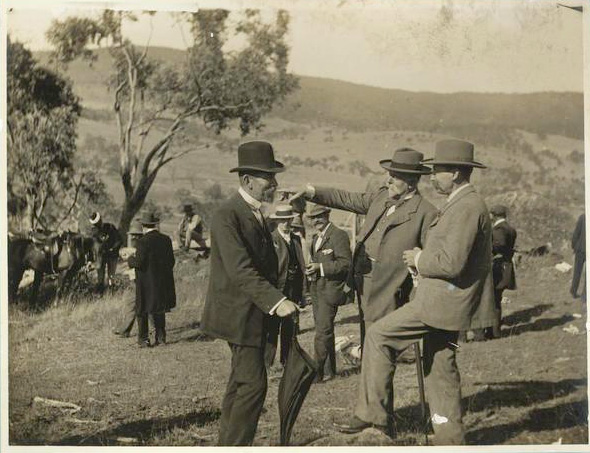 The senators tour inspecting a possible site for the ACT at Tumut Photo taken by Luke, E. T. (Edmund Thomas), 1864-1938. Sourced from the NLA [1]